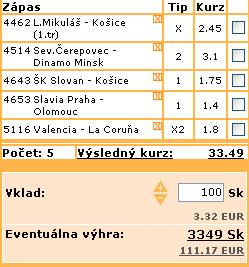 strike work